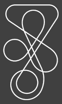 Modified from the original sourced from the official Vekoma website to add a background colour.